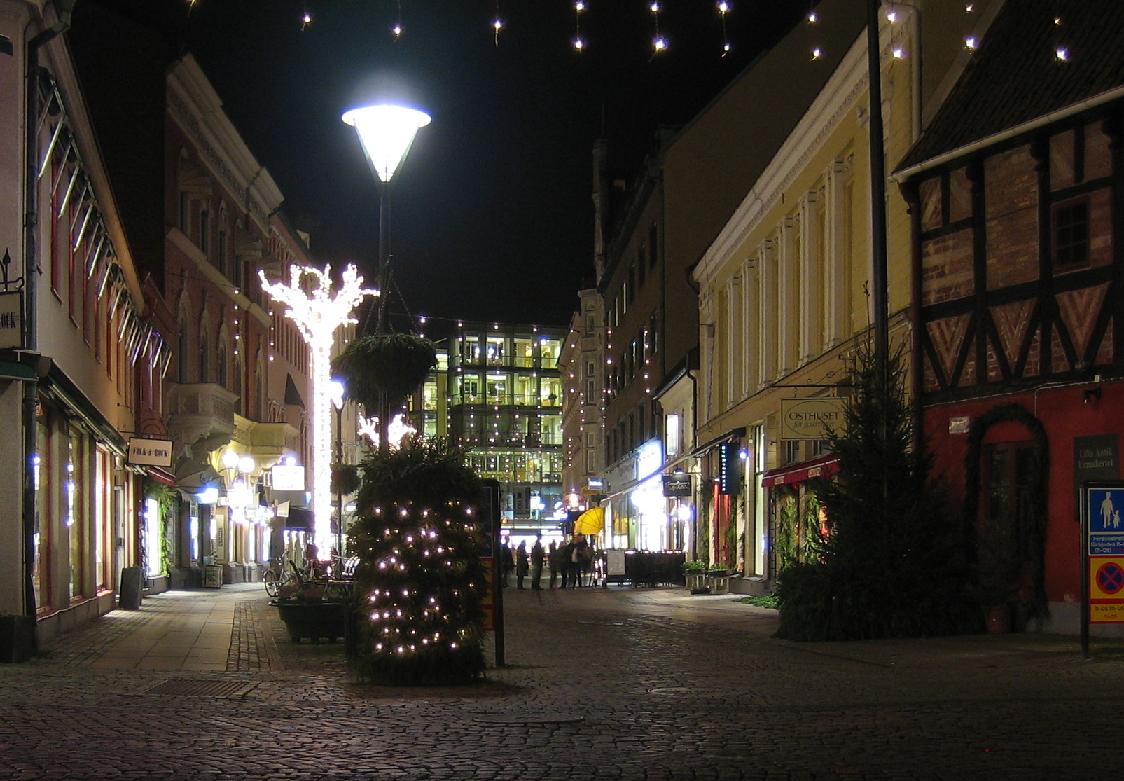 Skomakaregatan with Christmas decorations, Malmö, Sweden